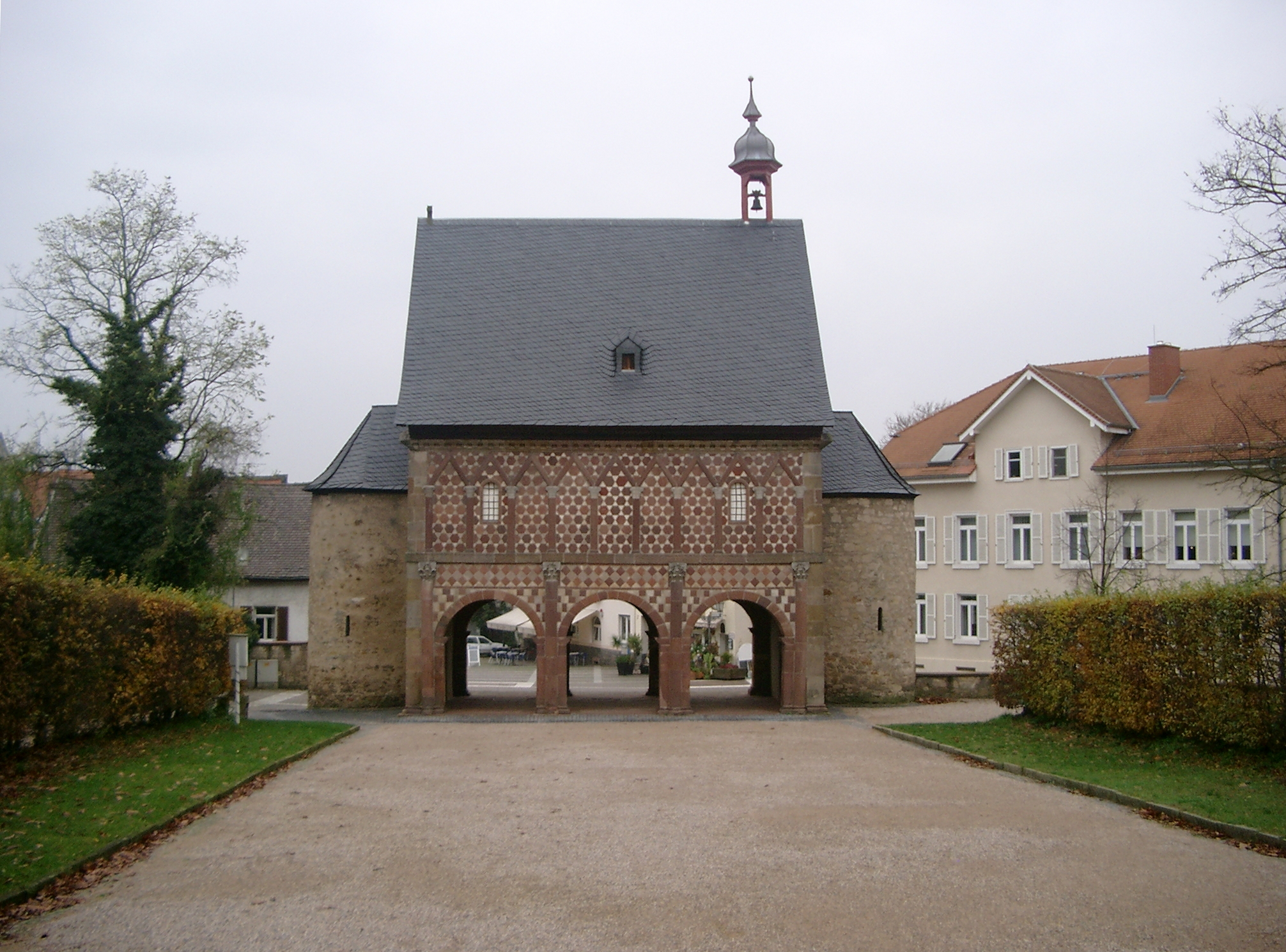 Carolingian gatehouse, Lorsch Abbey